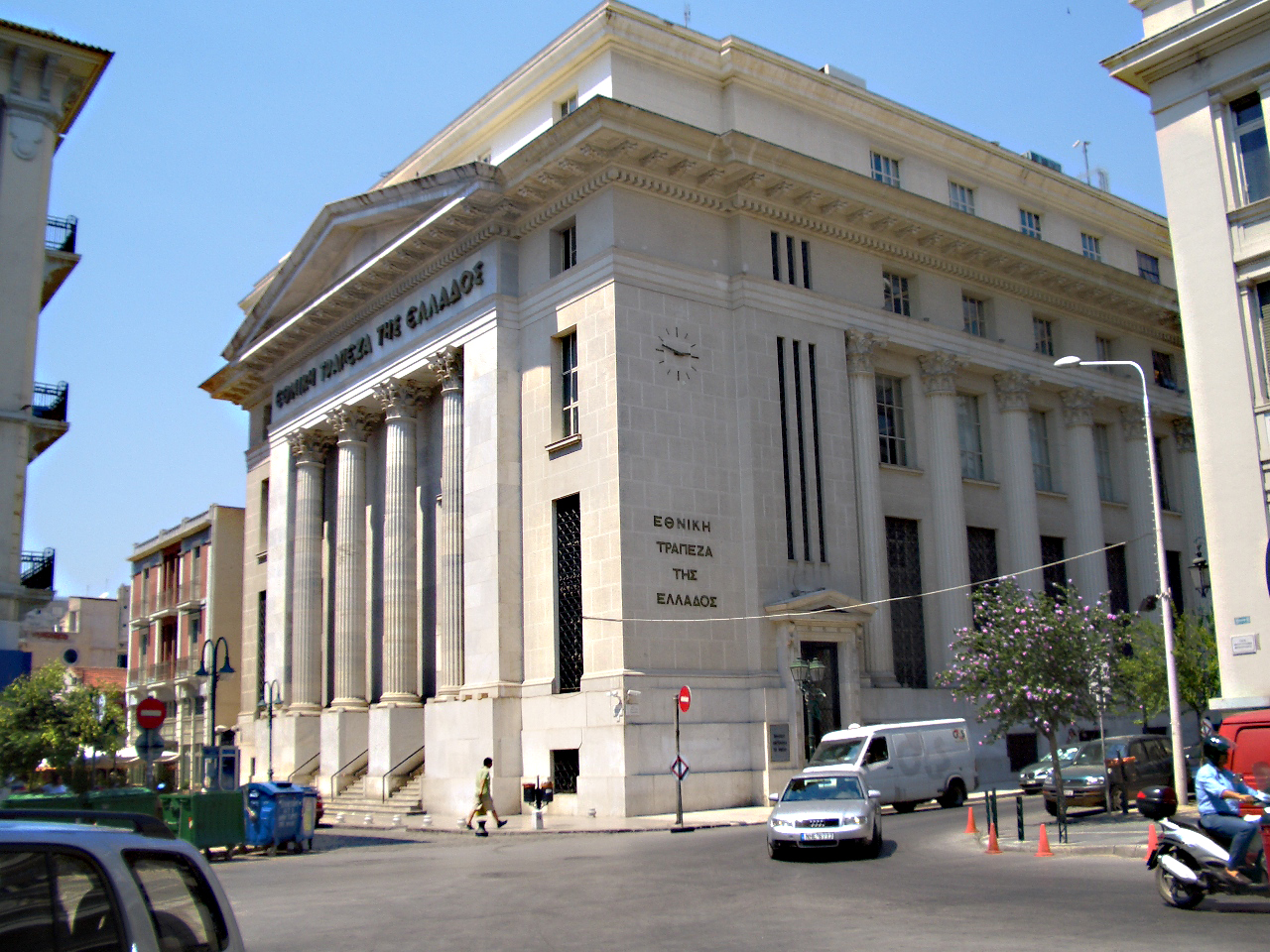 The Residence of the National Bank of Greece at the corner of the Streets Ionos Dragoumi and Tsimiski, Thessaloniki